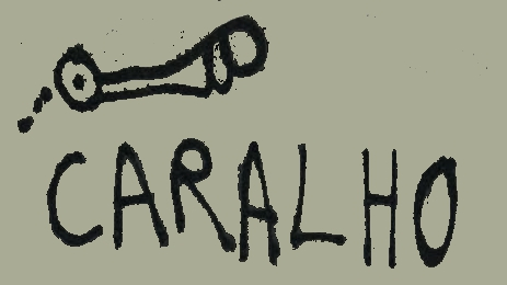 Graffiti drawing in a wall in Portugal, unknown location.